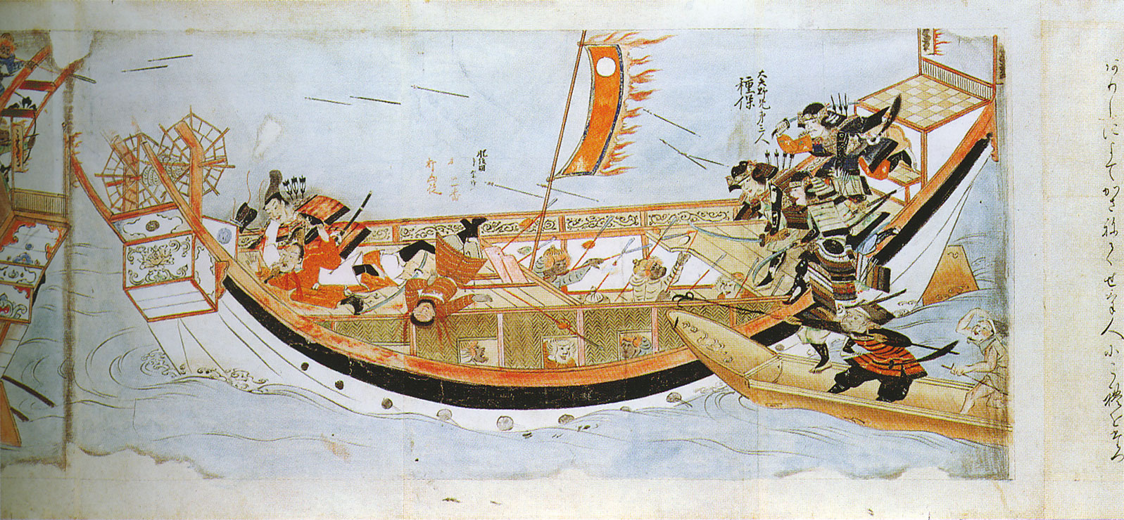 Painting scrolls on the Mongol invasions (Japanese: Mooko shuurai e-kotoba), by Fukuda Taika, 1846 (copy of a 1293 work by an unknown artist). Ink and water colors on paper. Height 47 cm, length of the whole scrolls is 12.12 m (scroll 2) and 11.96 m (scroll 4). Tokyo National Museum, Inv. no. A-1637. The scrolls deal with the deeds of Takezaki Suenaga, who lived in southern Higo (now Matsubase municipality, Kumamoto prefecture) during the Mongol invasions of 1274 and 1281.